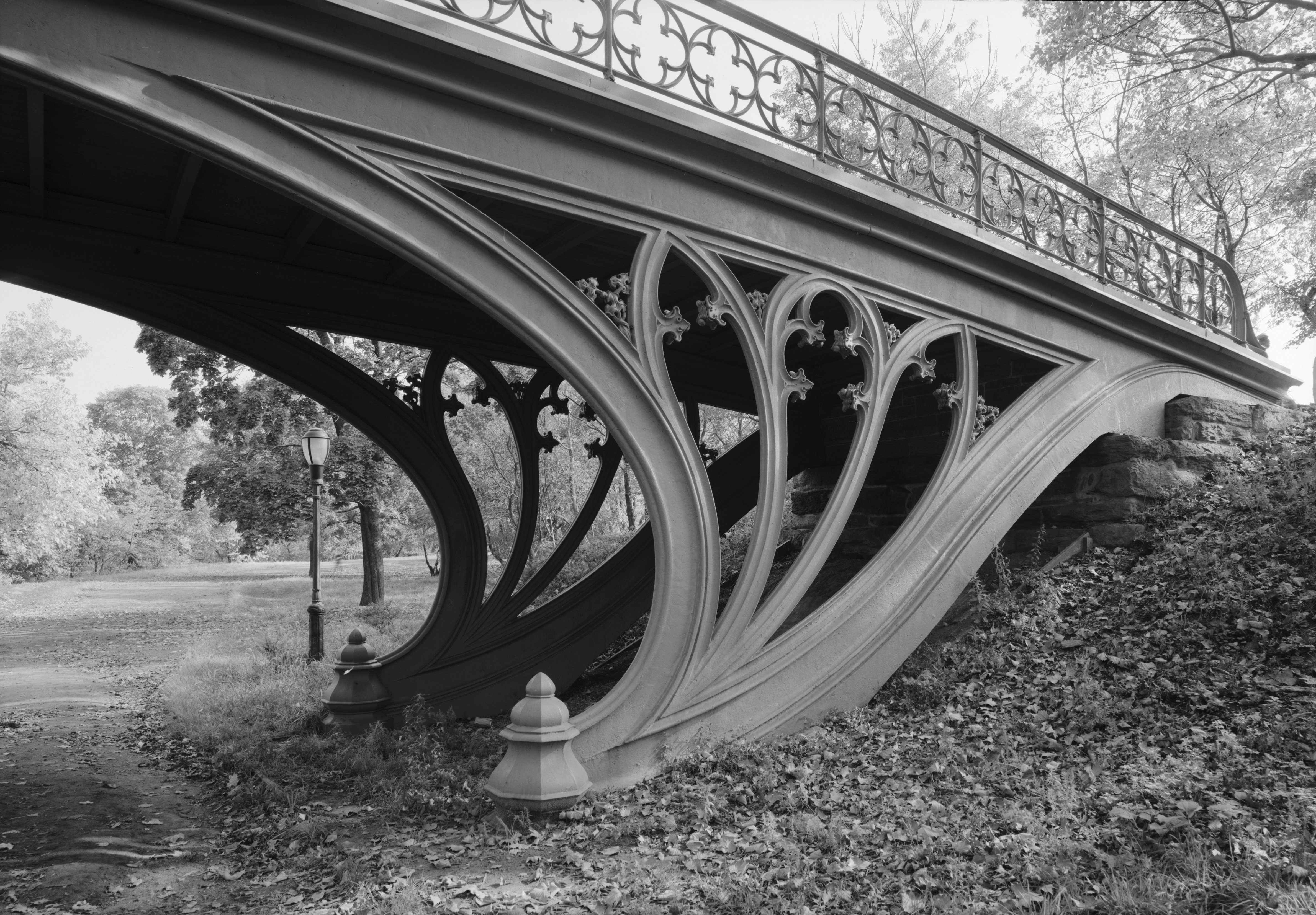 Looking south, detail of filigree work. Gothic Arch, Spanning bridlepath south of tennis courts at north